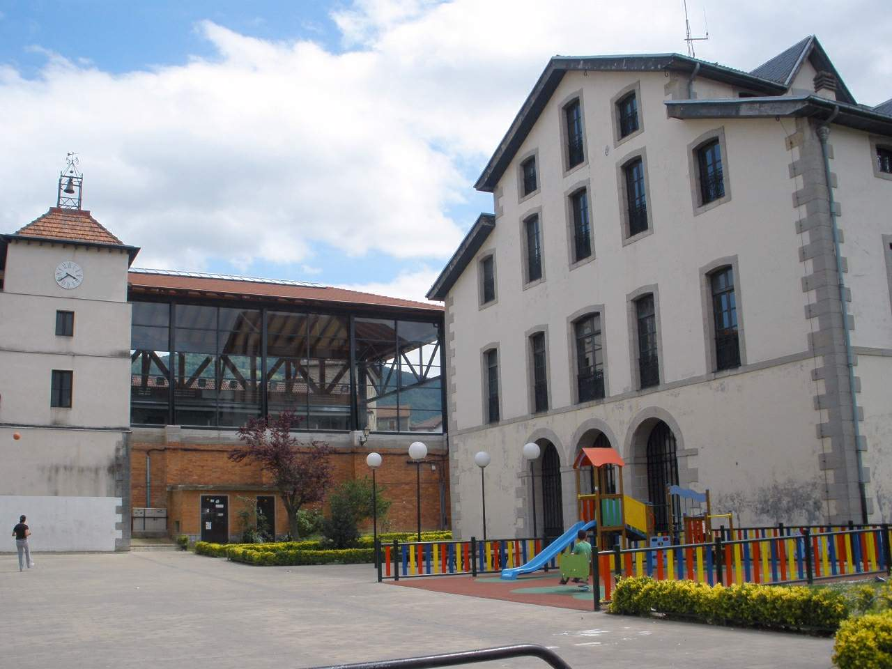 Ayuntamiento de Arceniega